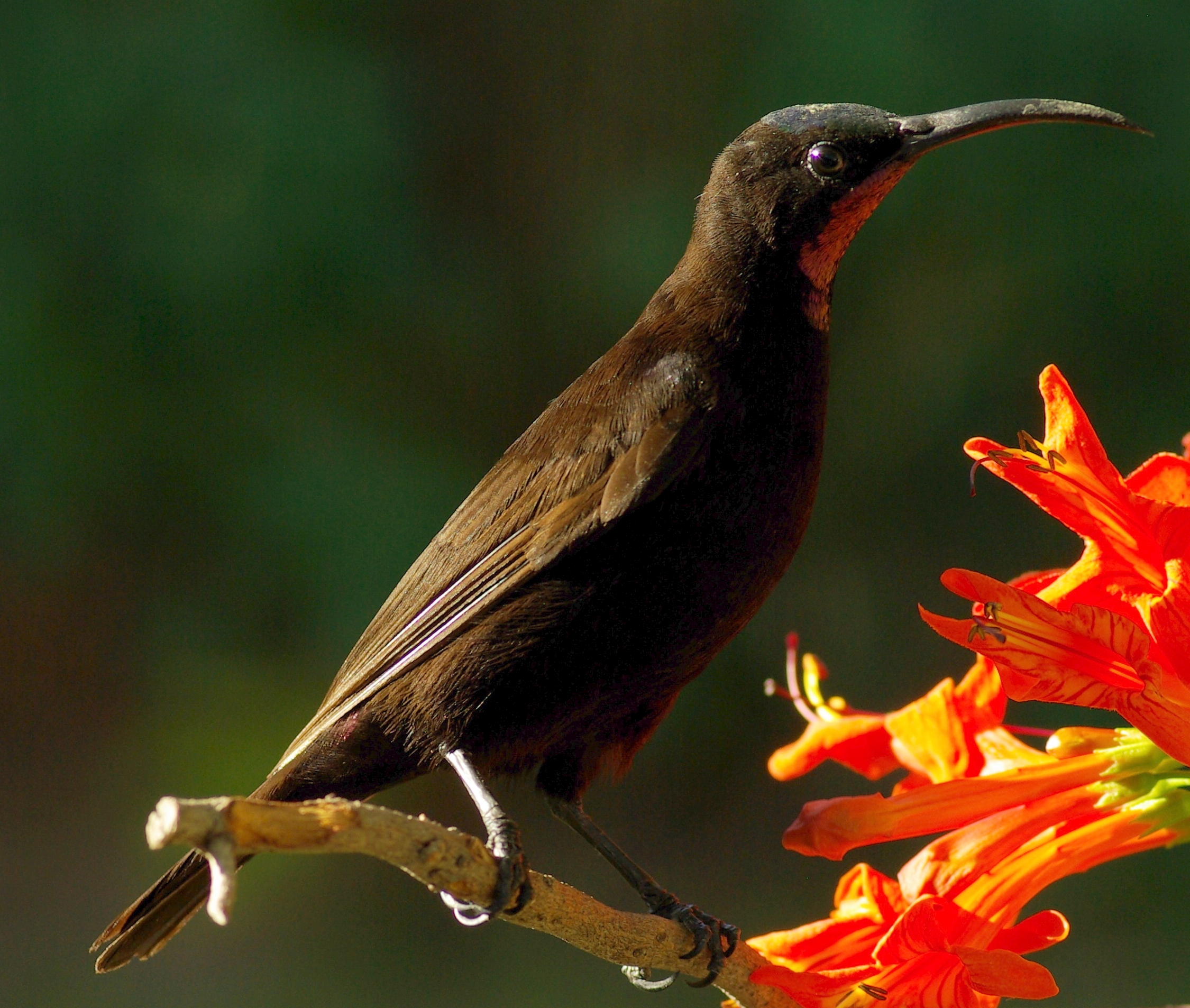 A male Amethyst sunbird of the nominate race, at Greyton, Western Cape